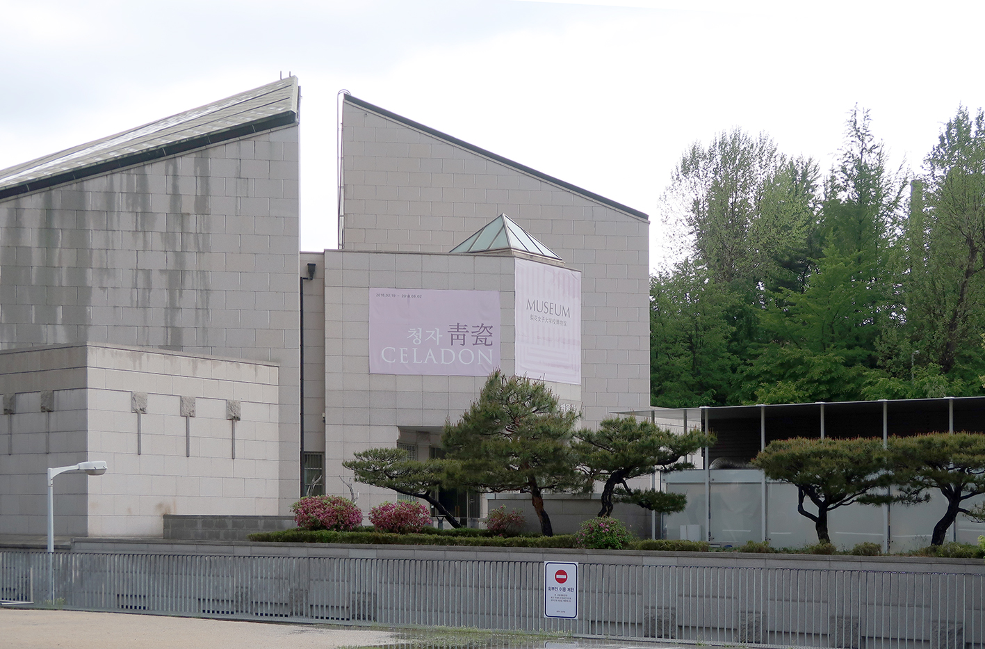 Ewha Womans University Museum. 2018